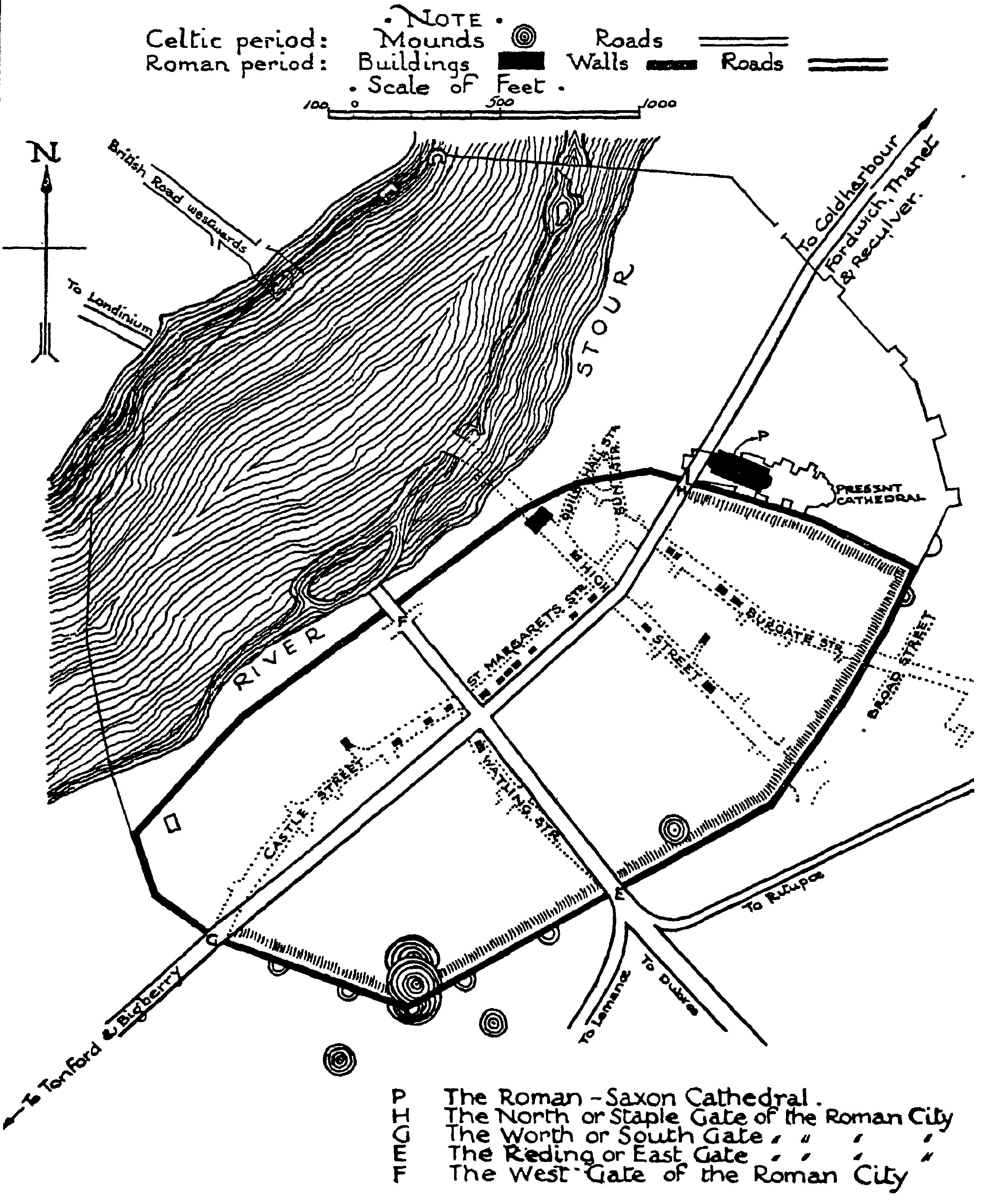 Plan of Durovernum (After the sketch by T. Godfrey Faussett in The Archæological Journal, Vol 32) from plate in "The Saxon Cathedral at Canterbury and The Saxon Saints Buried Therein"